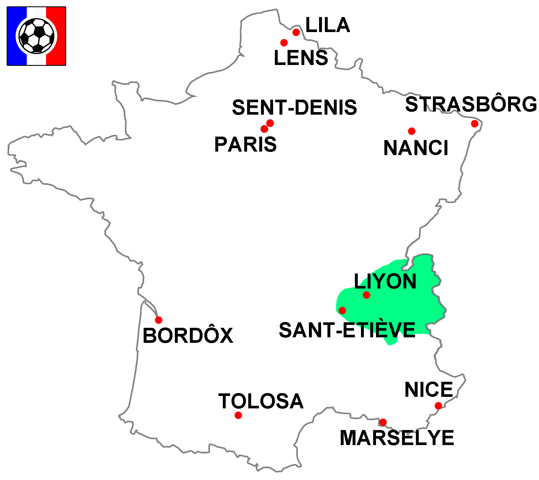 UEFA EURO 2016's Cities map in arpitan language (with the french arpitan area in green).